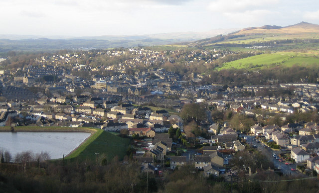 Skipton, North Yorkshire, England. This view, taken from the edge of Skipton Moor, beside Jenny Gill, shows the whole of the grid square, from Skipton Parish Church in the NW corner to the reservoir at Greatwood in the SE. On the skyline (top right) is the very distinctive Sharp Haw.